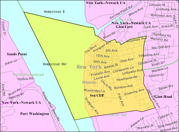 U.S. Census 2000 reference map for Sea Cliff, New York